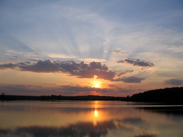 Sunset over a body of water in Russia.